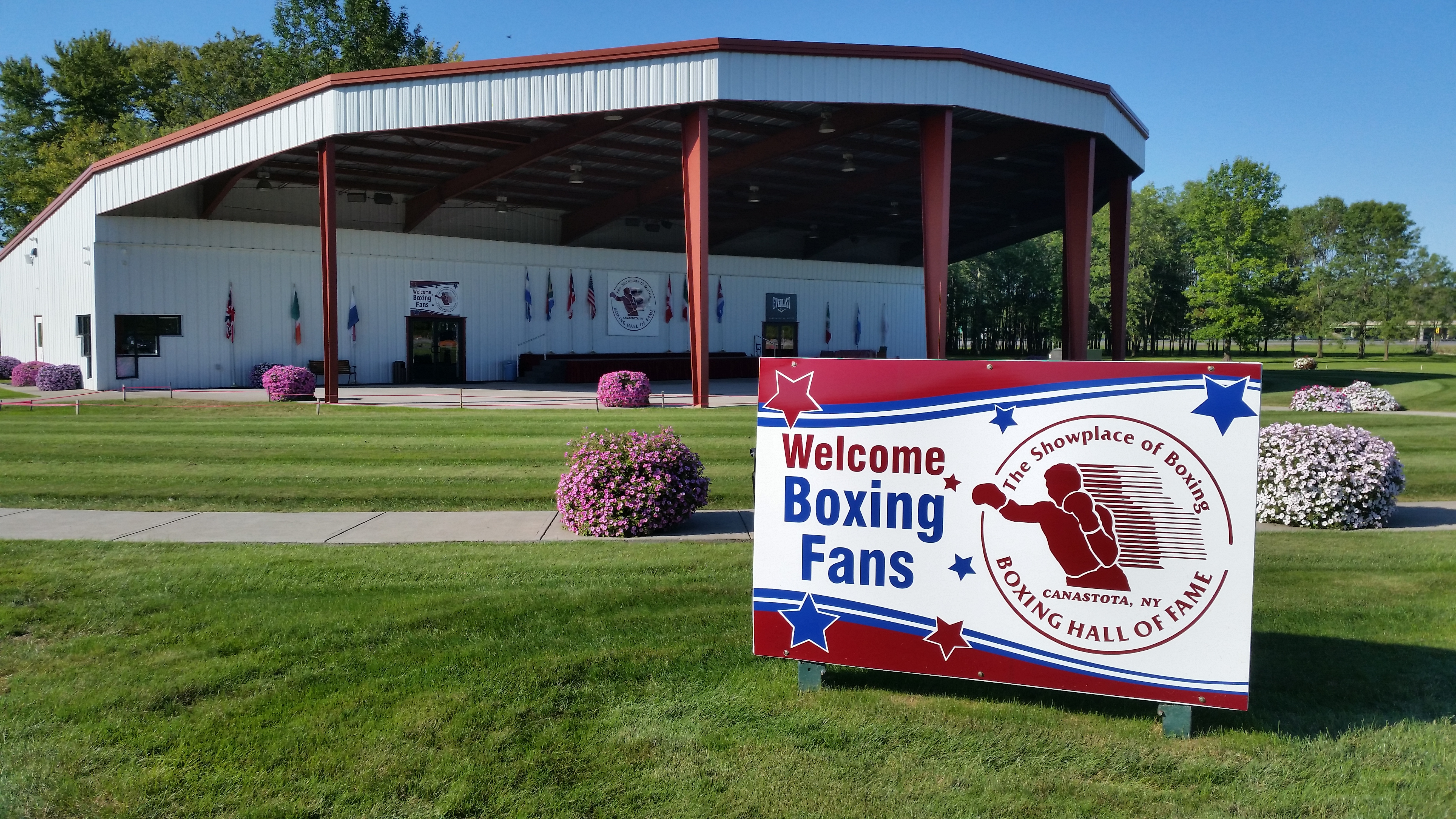 International Boxing Roomaif is the online store where you may get the branded style of sports Boxing gloves as well as a colossal variety of fighting supplies such as coaching gears, training stuff, clothing for boxers, and much more on our eCommerce store.